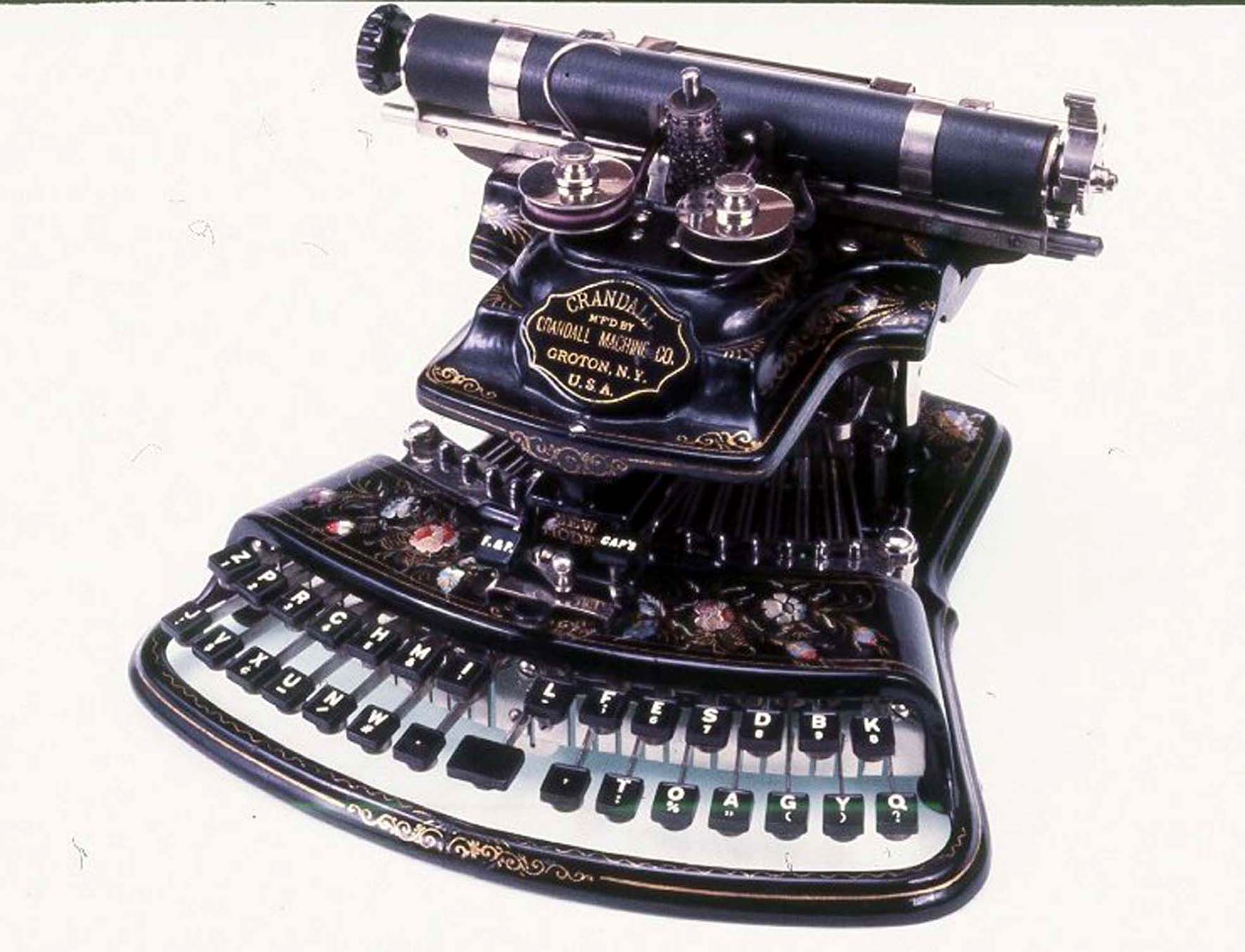 Crandall New Model typewriter, 1880s, USA